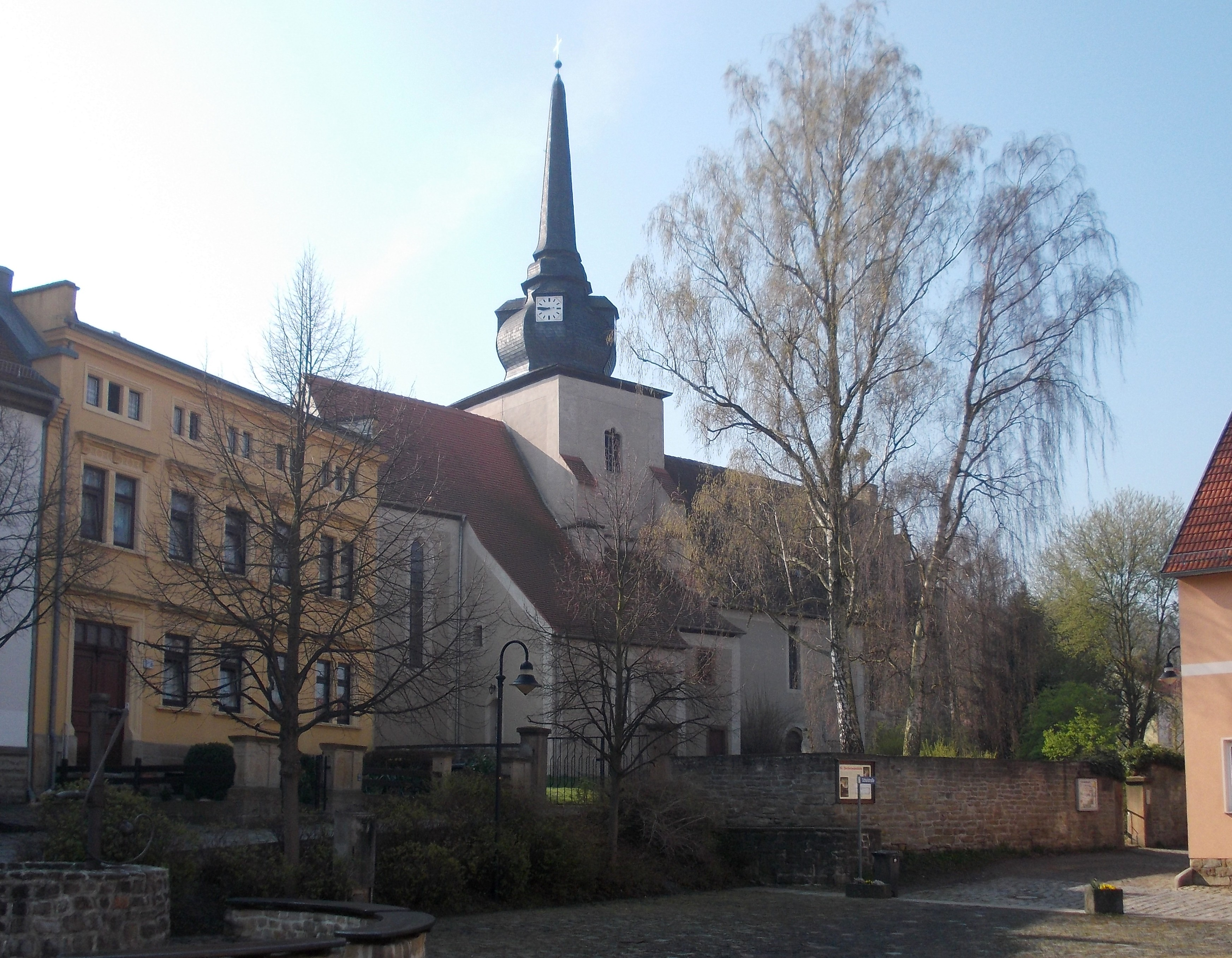 St. Bartholomew's Church in Droyssig (district: Burgenlandkreis, Saxony-Anhalt)